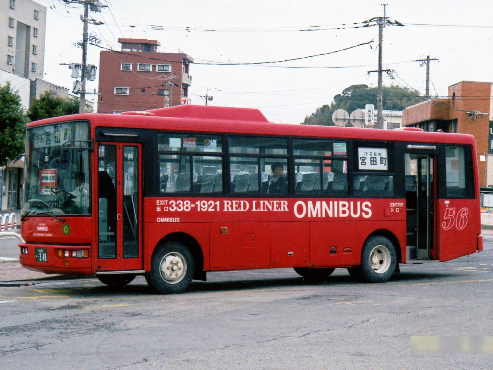 JR Kyushu Bus 338-1921